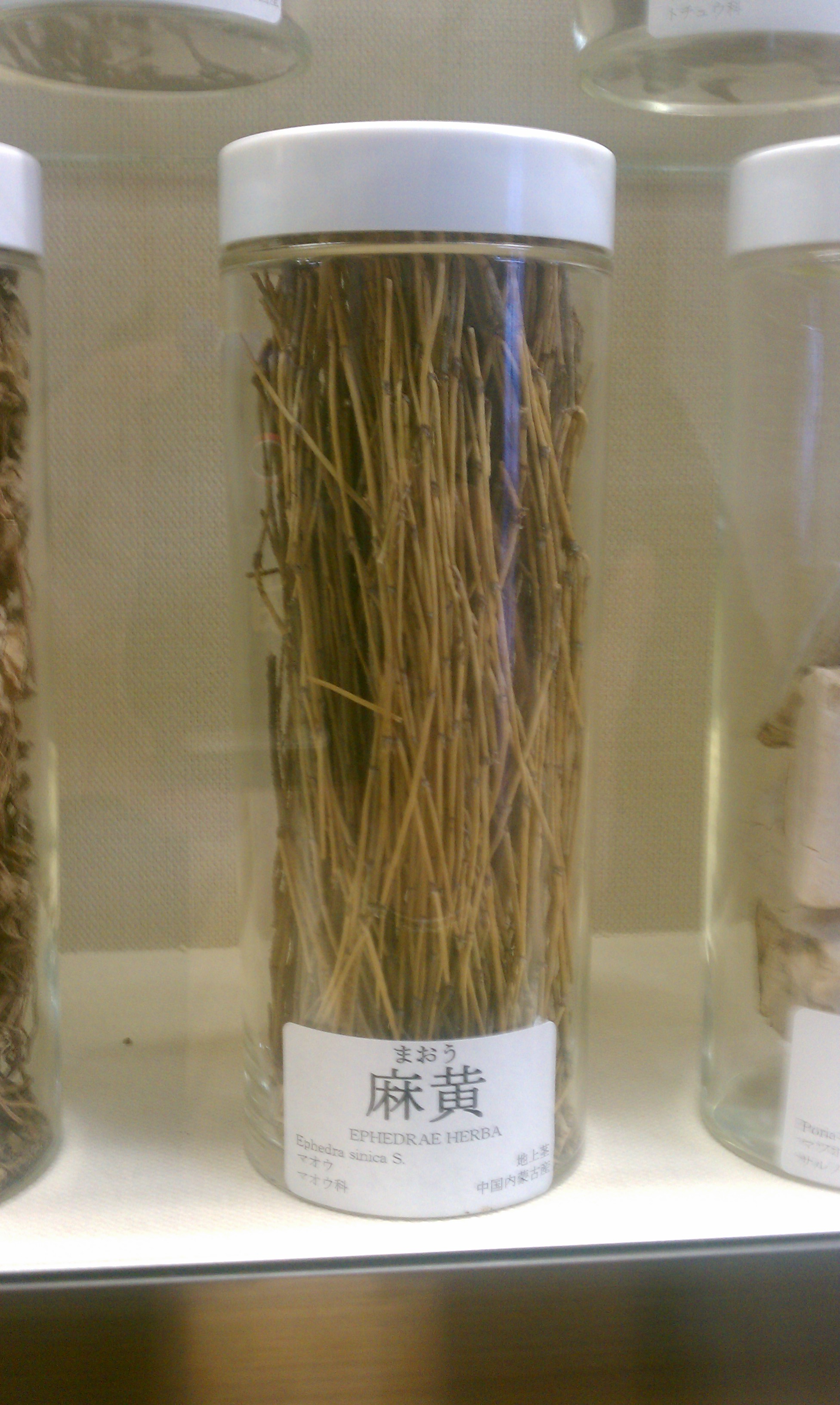 Ephedra is a genus of gymnosperm shrubs. it is used chinese treditional medicine